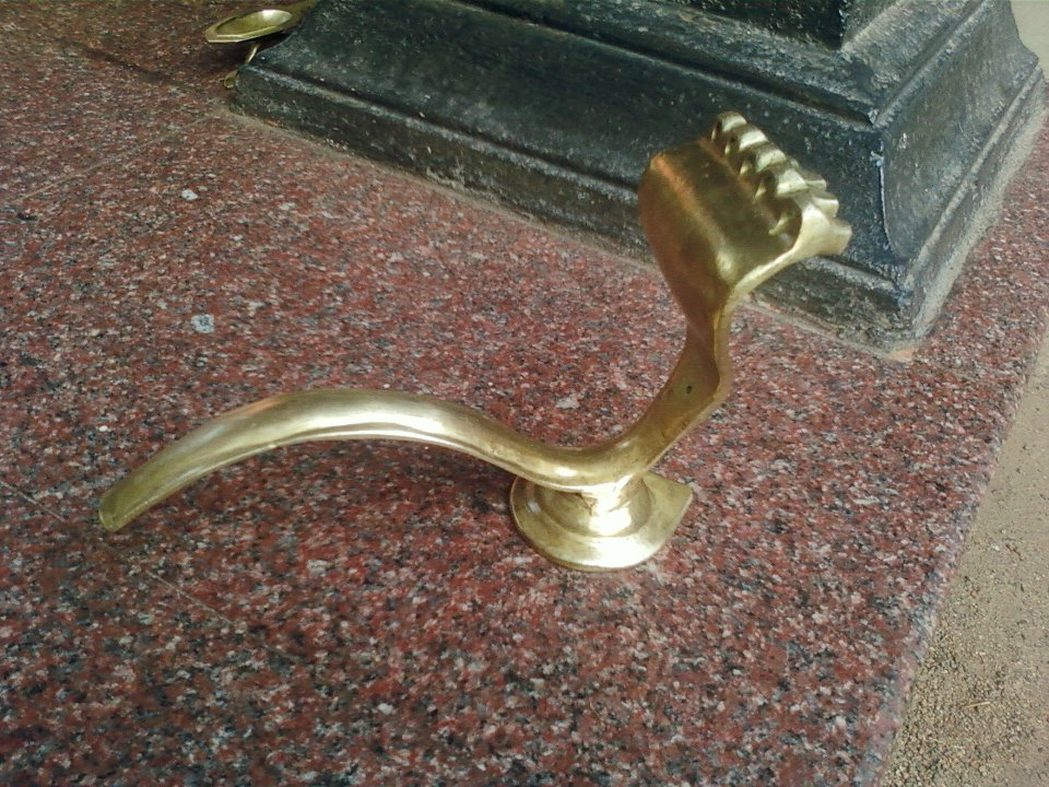 A lamp used in Deeparandhana